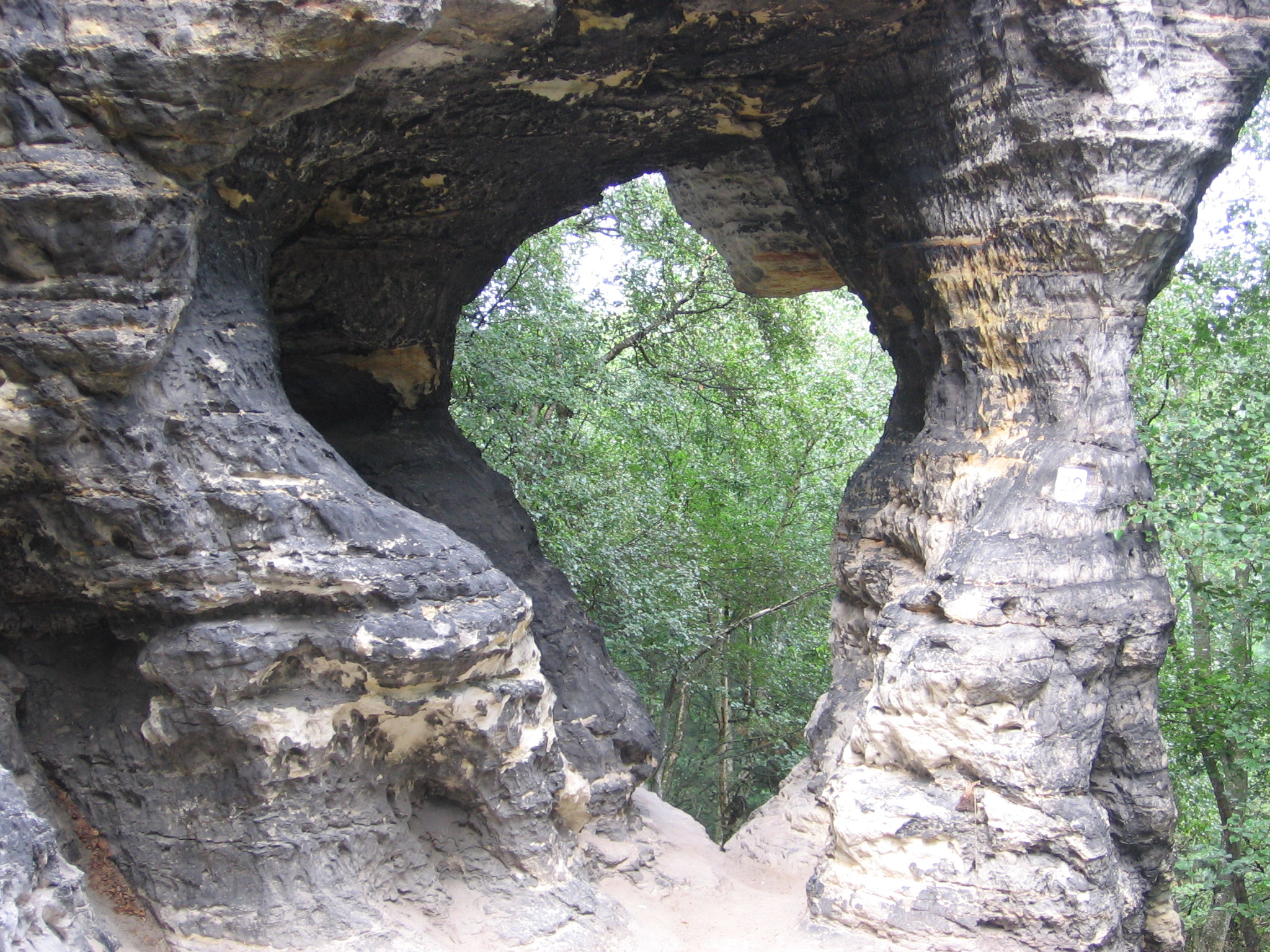 Sandstone Area Tiské stěny in Ústí nad Labem Region (Czech Republic) - a massif called "Africa"